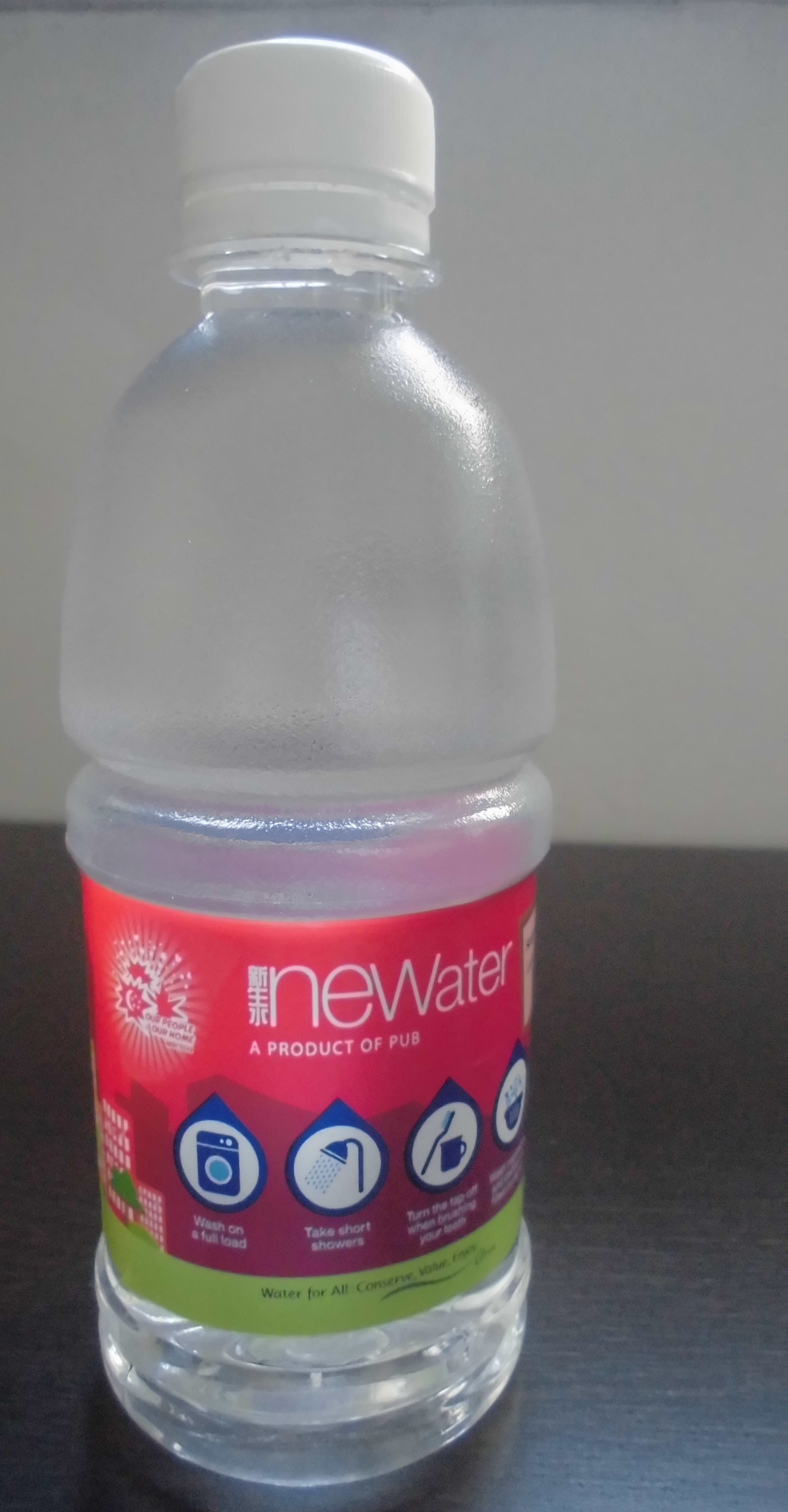 Image of a bottle of NEWater NDP 2014 edition that is given out during NDP 2014 for free.